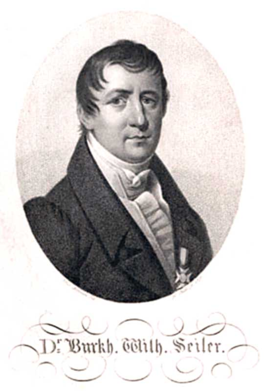 German physician Burkhard Wilhelm Seiler